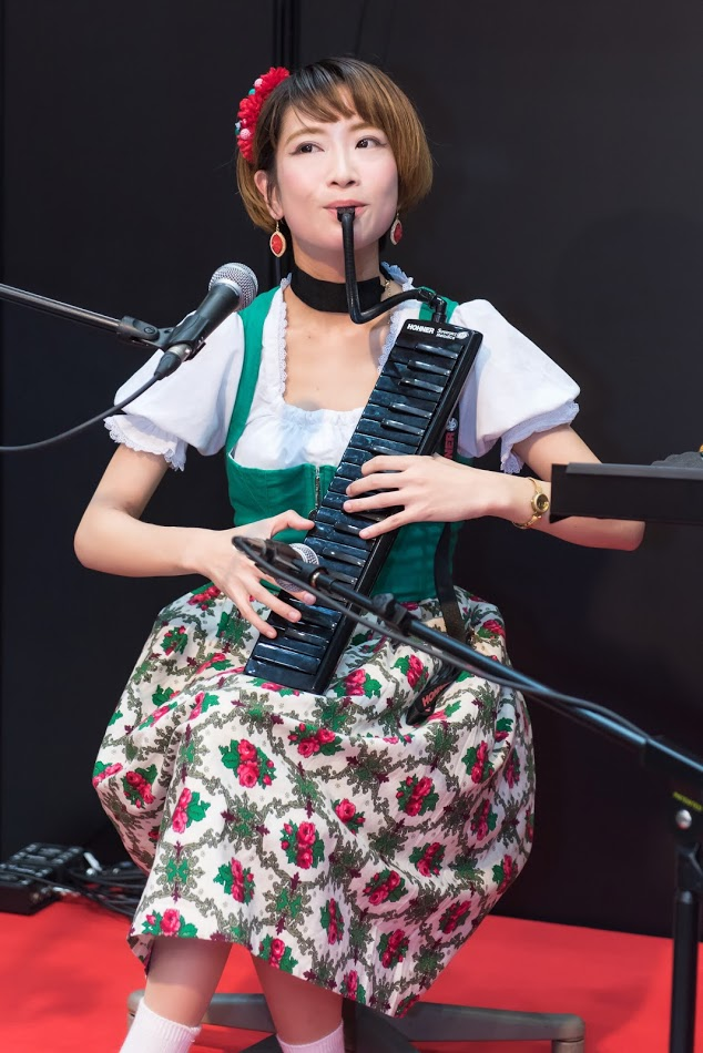 Melodica being played vertically, with two hands and an air tube. Pianonymous (or Ms Minamikawa i.e. Akeo MINAMIKAWA) is a specialist and performer of "keyboard harmonica"s. She reliesed this photo of her as PD (Public Domain."パブリックドメイン" in Japanese language) onto the internet. Please read the description (written in Japanese language) of her "google-photo" page: I got the permission from her to upload this photo onto Wikimedia Commons.